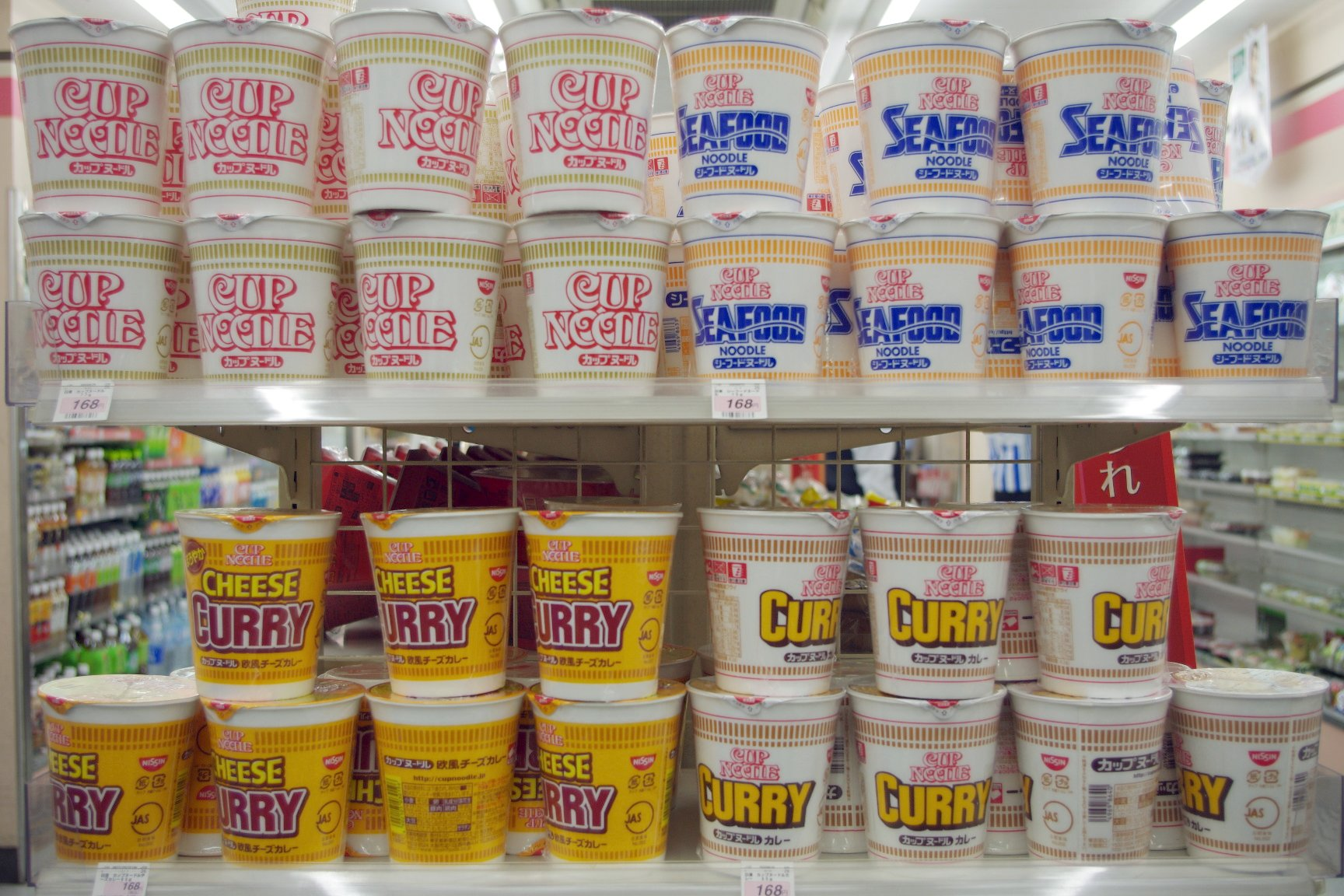 Cup Noodles